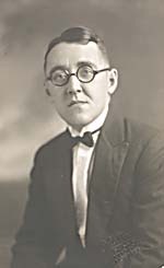 Eugène Daignault was an American-Canadian folksinger, comedian, actor, and storyteller.